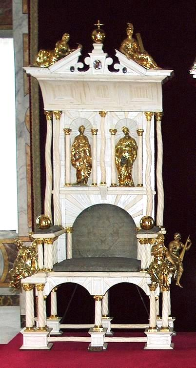 The coronation chair of the Danish kings, used at coronations between 1671-1840 during the institution of Absolute Monarchy. The throne was made for Frederik III by Bendix Grodtschilling, between 1662 and 1671. The gilt figures were added during Christian V's reign. It was first used in 1671 for the anointment of Christian V and last used for Christian VIII’s anointment in 1840. Frederik III ordered this chair along the same lines as the silver lions, inspired by the stories of King Solomon from the Old Testament. To further enhance its legendary status, it was said that it was composed by unicorn horn. In reality, however, it is made from narwhale tusks, a material the danish kings could initially claim almost as their own because of the danish ownership of Iceland and the Faroe islands.